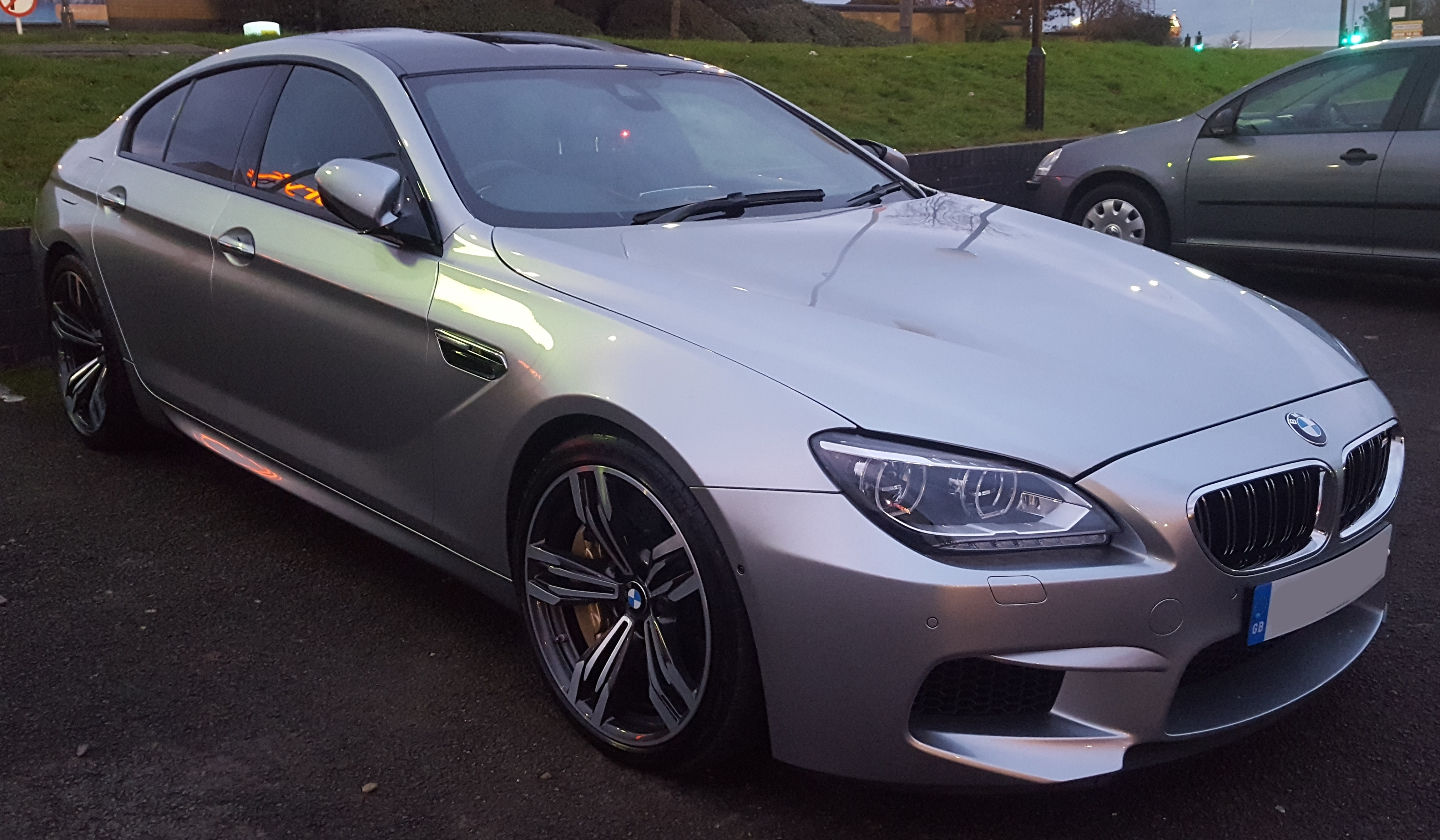 2014 BMW M6 Gran Coupe Automatic 4.4 Taken in Leamington Spa